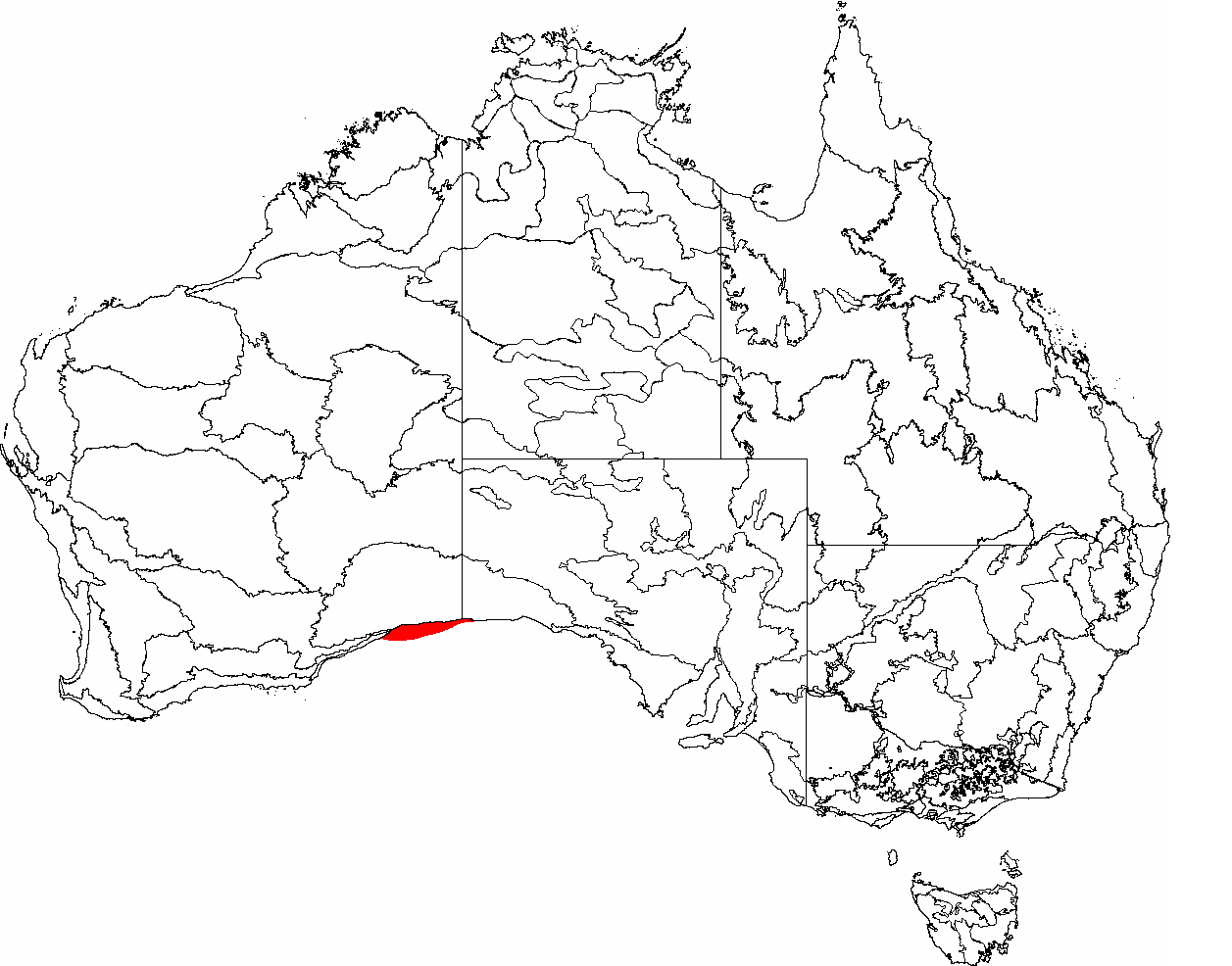 This is a map of the Interim Biogeographic Regionalisation of Australia (IBRA), with state boundaries overlaid. The Hampton region is shown in red.